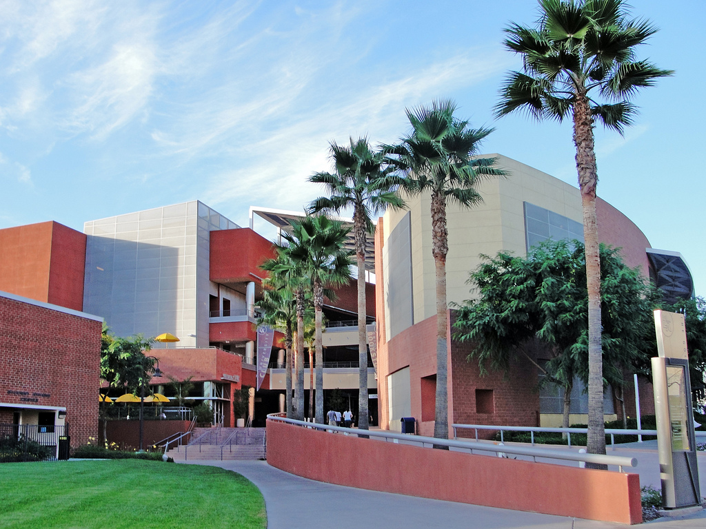 CSULA Student Union